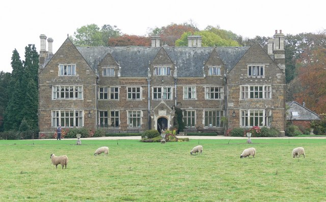 Launde Priory in Leicestershire, near to Launde Abbey, Leicestershire, Great Britain. Link